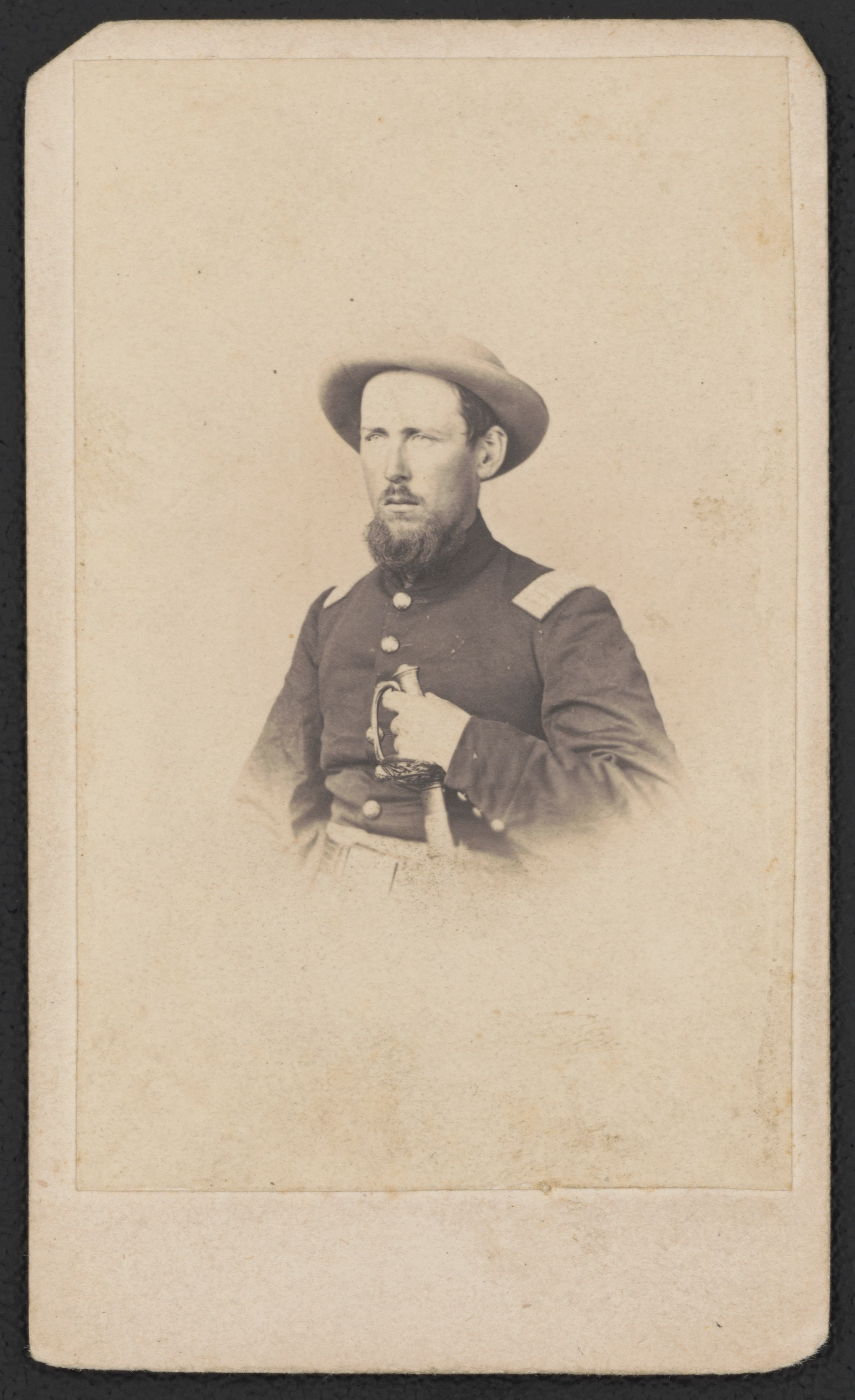 Title: Captain Henry L. Rowell of of Co. C, 89th Illinois Infantry Regiment, in uniform with sword Abstract/medium: 1 photograph : albumen print on card mount ; mount 11 x 6 cm (carte de visite format)